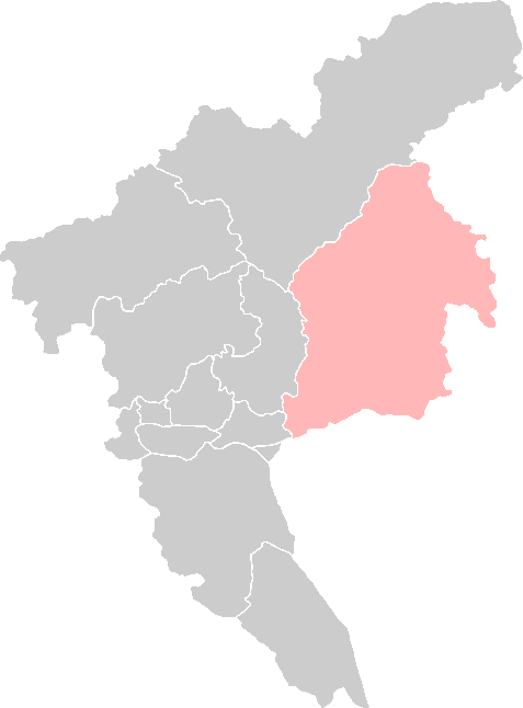 A Blank Map of Guangzhou Map